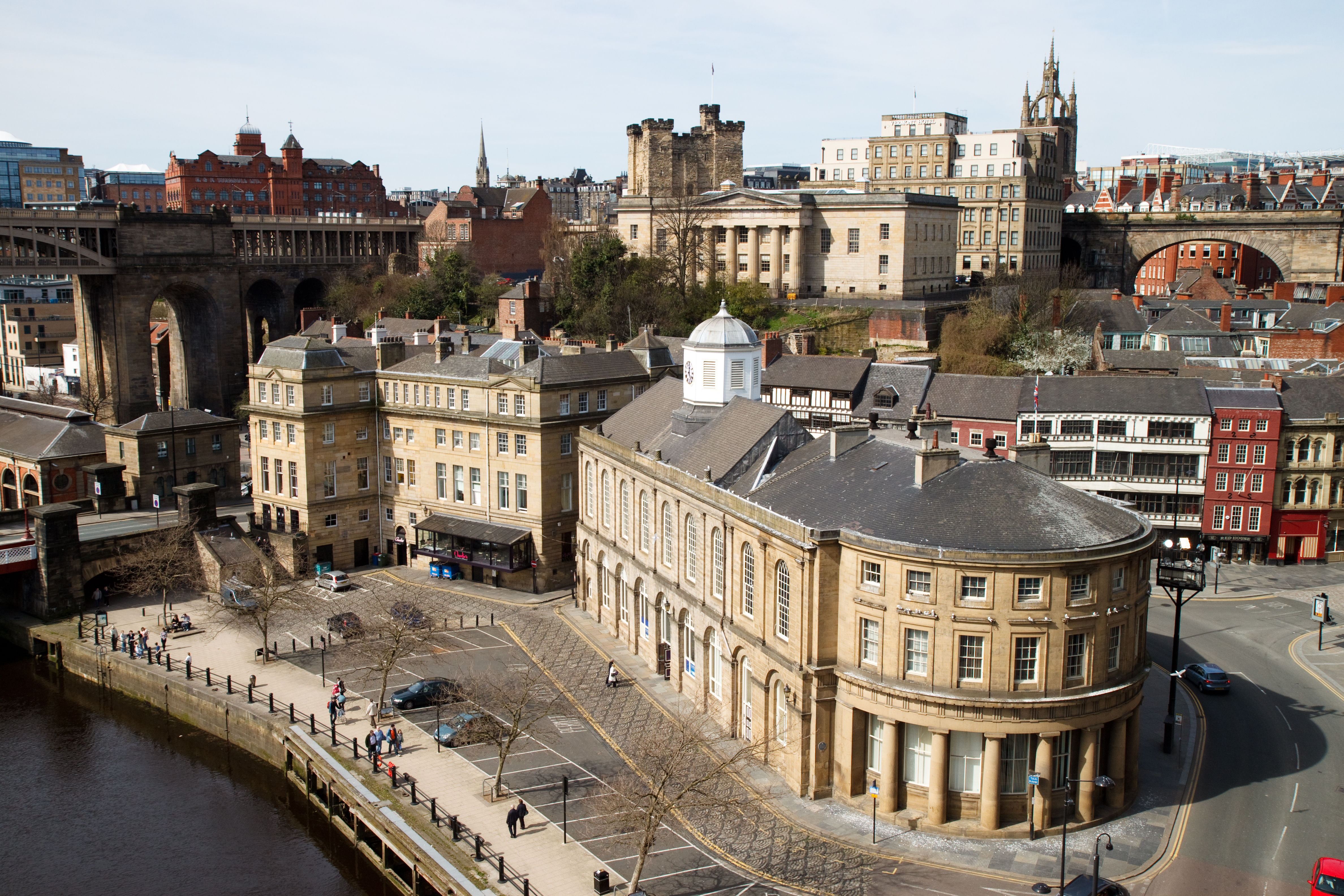 The Quayside in Newcastle upon Tyne